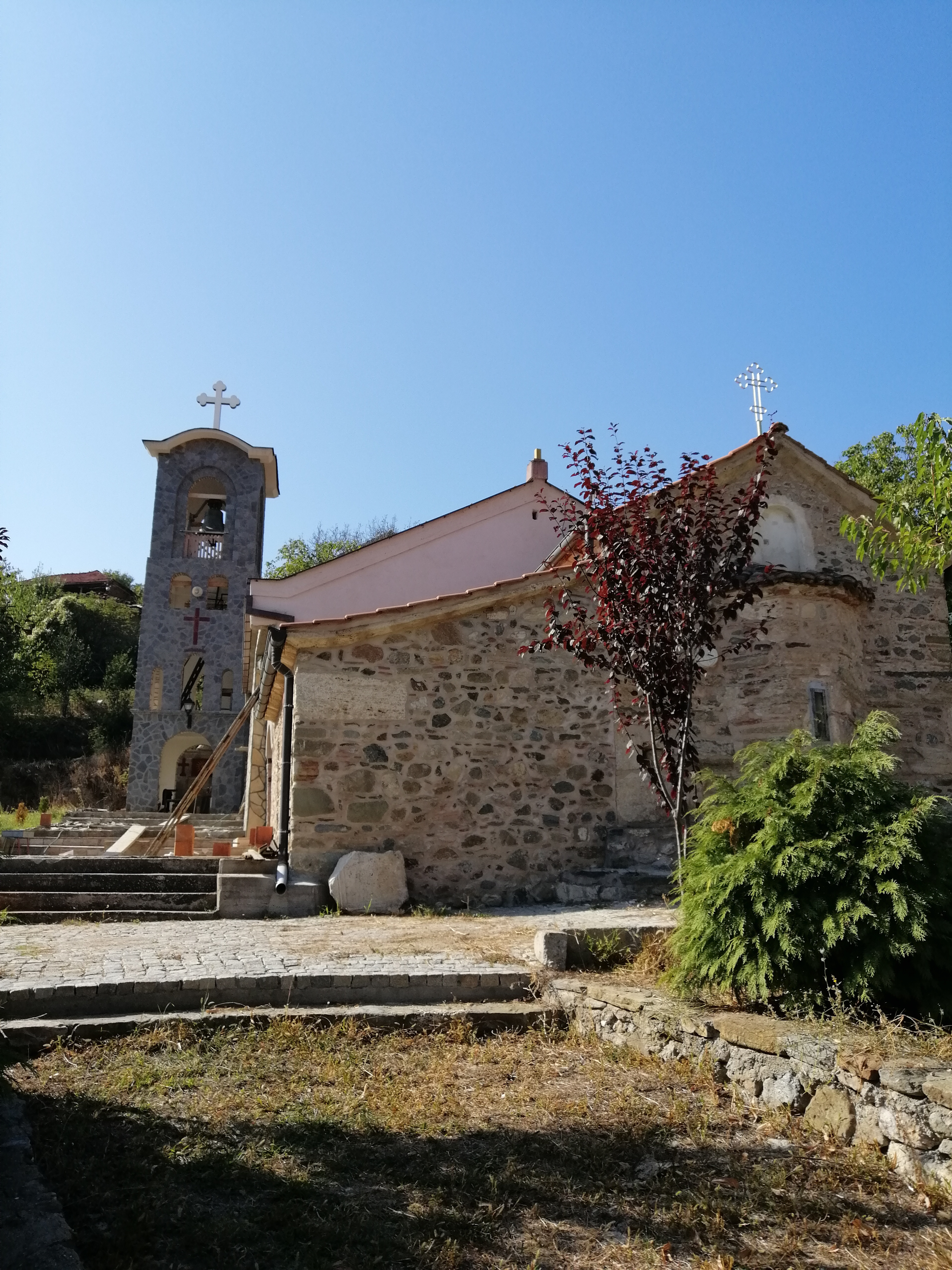 View of the St. Nicholas Church in Ljubanci